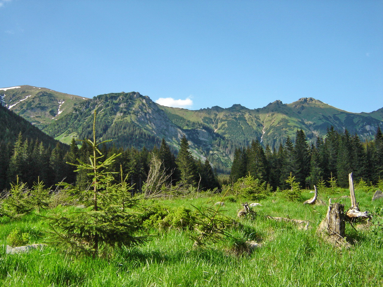 Tichá dolina, Tatry mountains, Slovakia